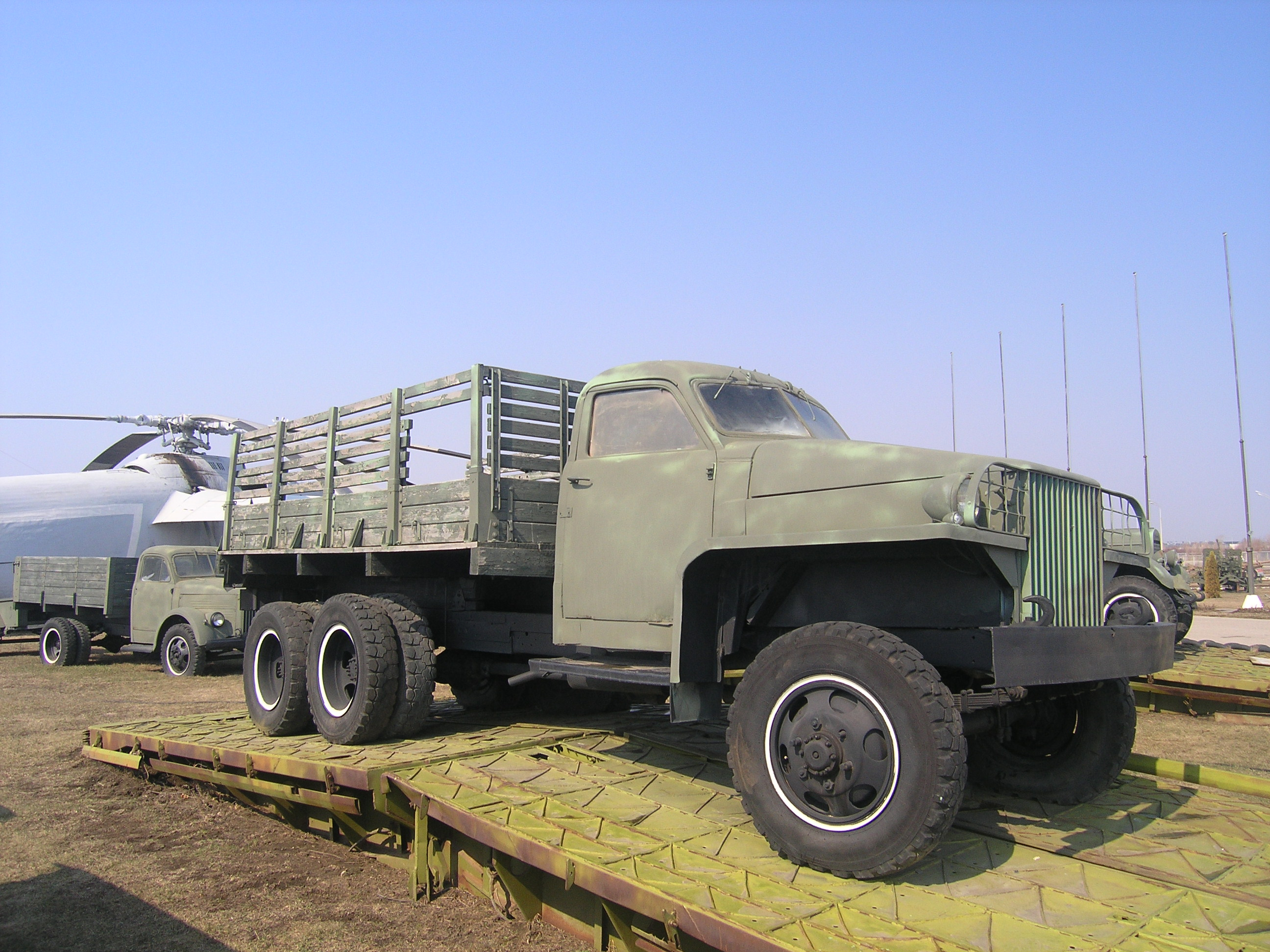 Studebaker US6 in Technical museum Togliatti